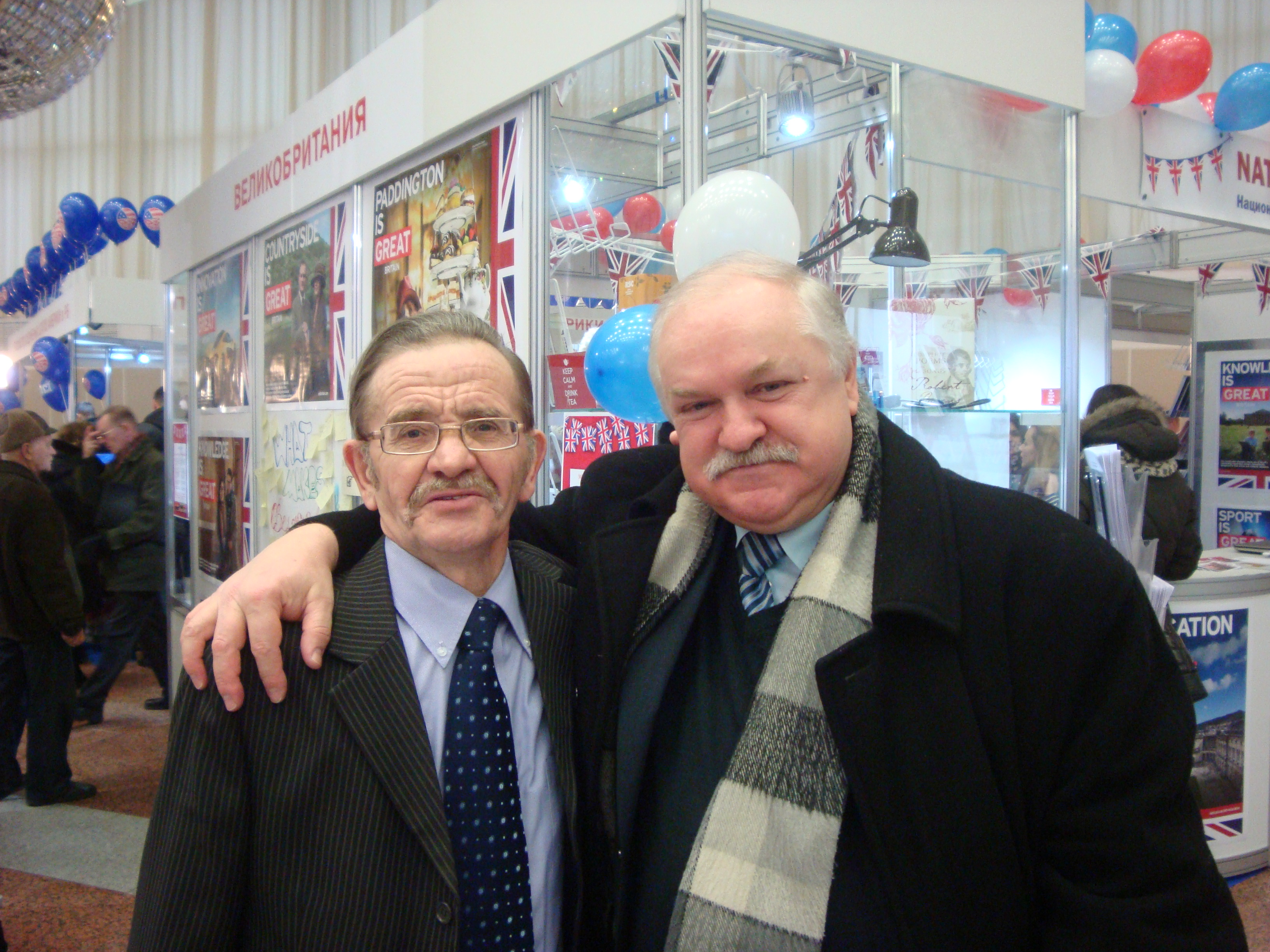 Jaugen Hvalei (left side) and (right side) Mikola Shabovich (born 1959 AD) - a belorussian poet on XXII International book exhibition in Minsk city (Belarus). 12 February 2015 AD